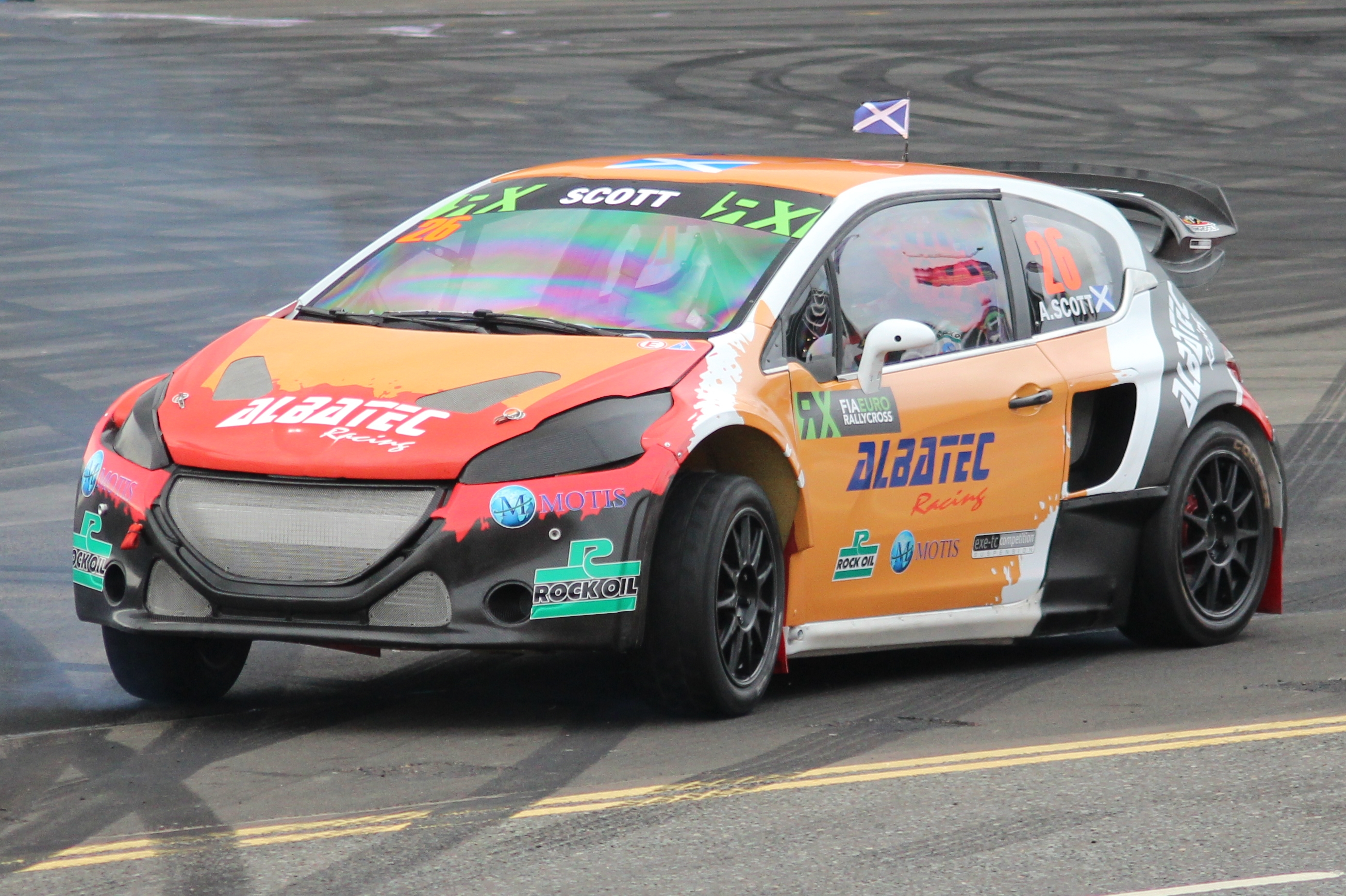 Ignition Festival Scotland